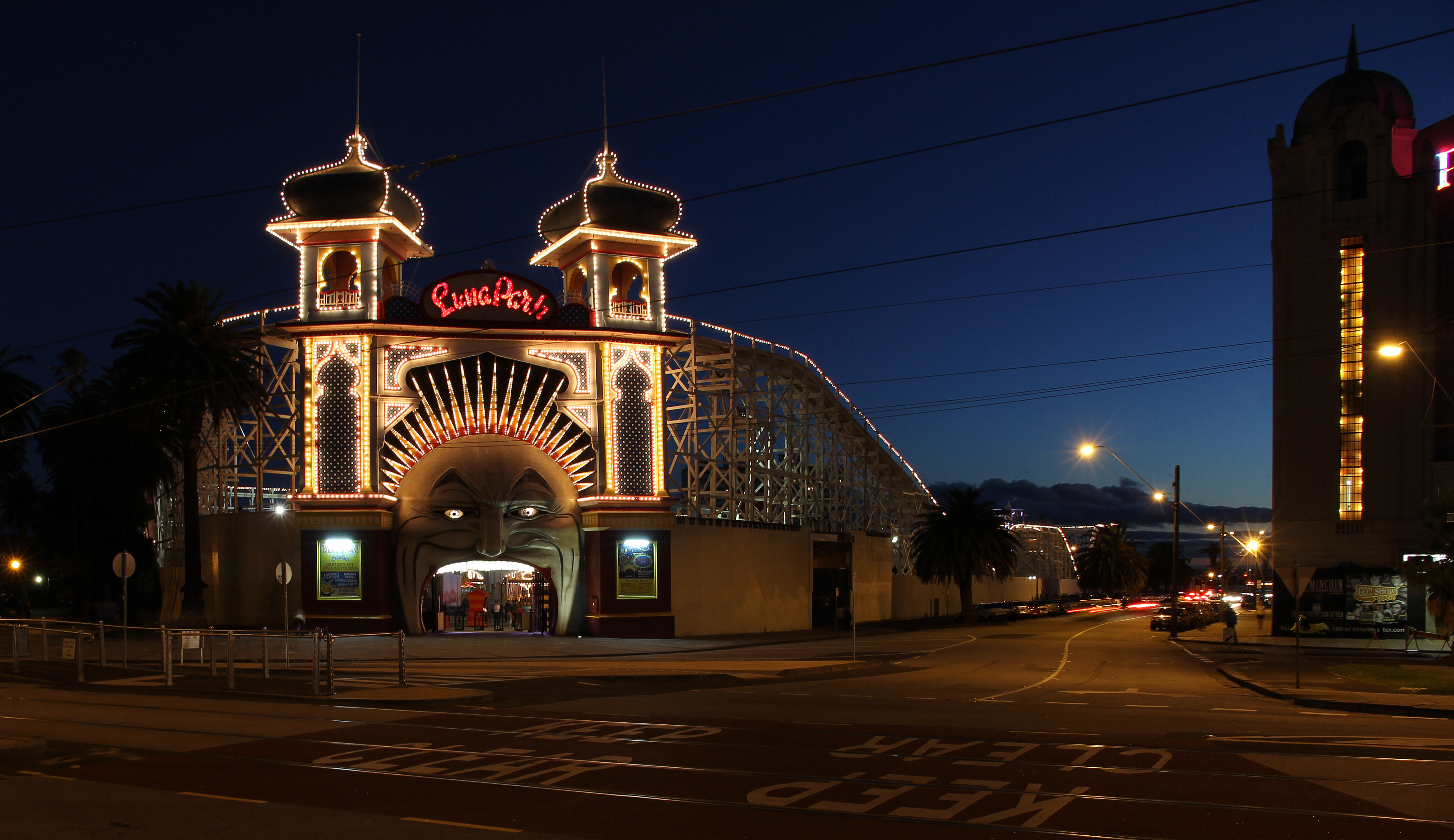 Luna Park in St Kilda, Melbourne